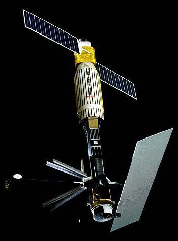 Orginal caption released with the picture: Seasat was the first Earth-orbiting satellite designed for remote sensing of the Earth's oceans and had onboard the first spaceborne synthetic aperture radar.